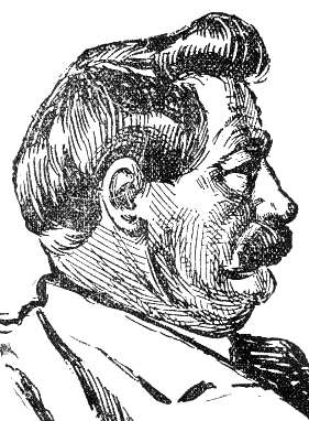 Adolph Leutgert, a Chicago businessman, was accused in 1897 of murdering his wife Louisa and disposing of her remains in his sausage factory. Leutgert's first trial ended in a hung jury; at the second he was convicted of murder and sentenced to life in prison. He died there less than two years later.